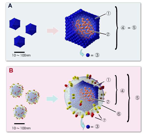 Basic structure of viruses. A. nonenveloped virus, B. enveloped virus. Capside Nucleic acid Capsomer Nucleocapsid Virion Envelope Spike (envelope glycoproteins) Examples are the viruses showing icosahedral symmetry.